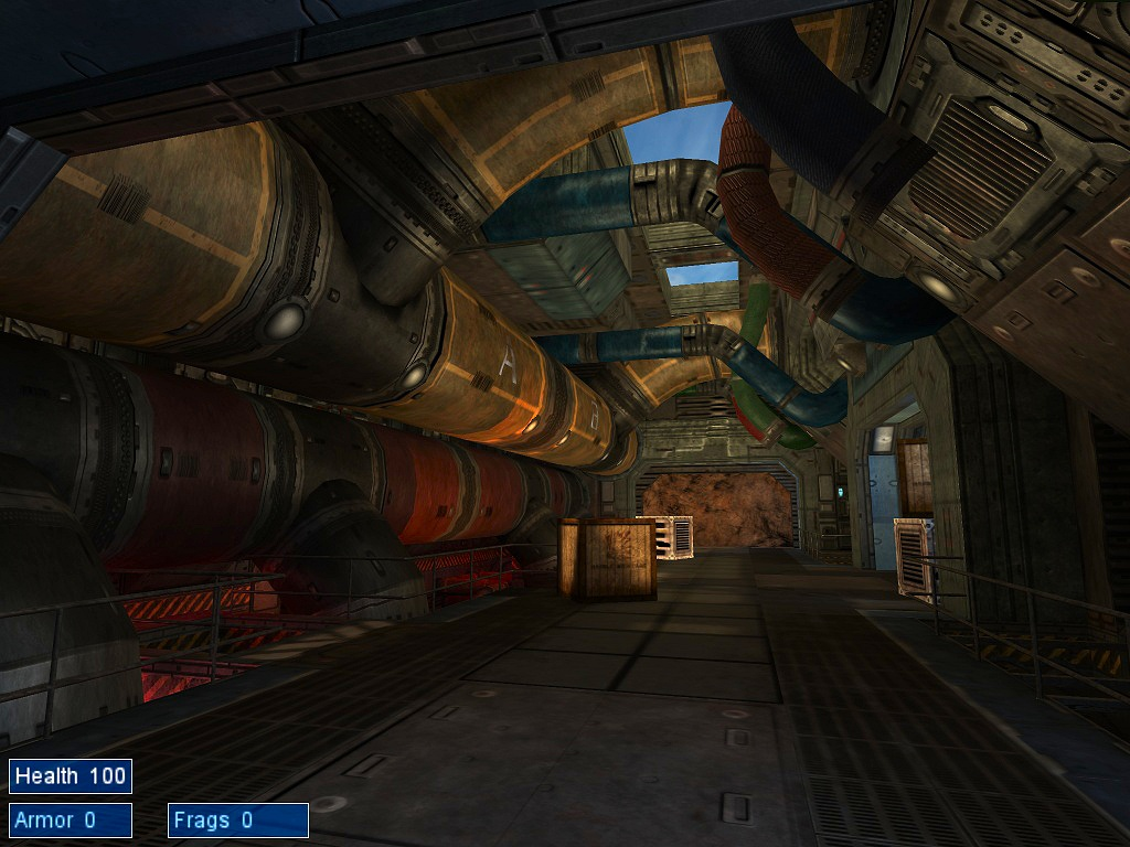 A screenshot of a "factory building" map in the Cafu Engine.